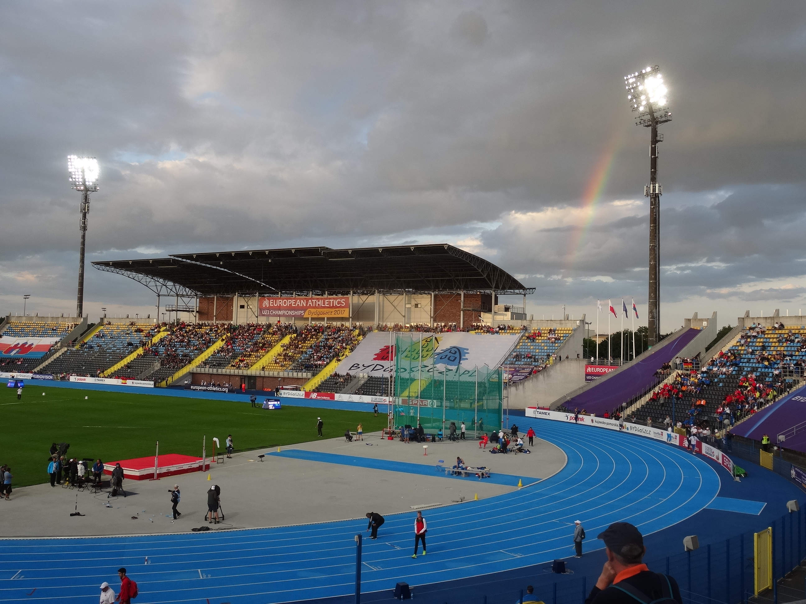 2017 European Athletics U23 Championships in Bydgoszcz, Poland